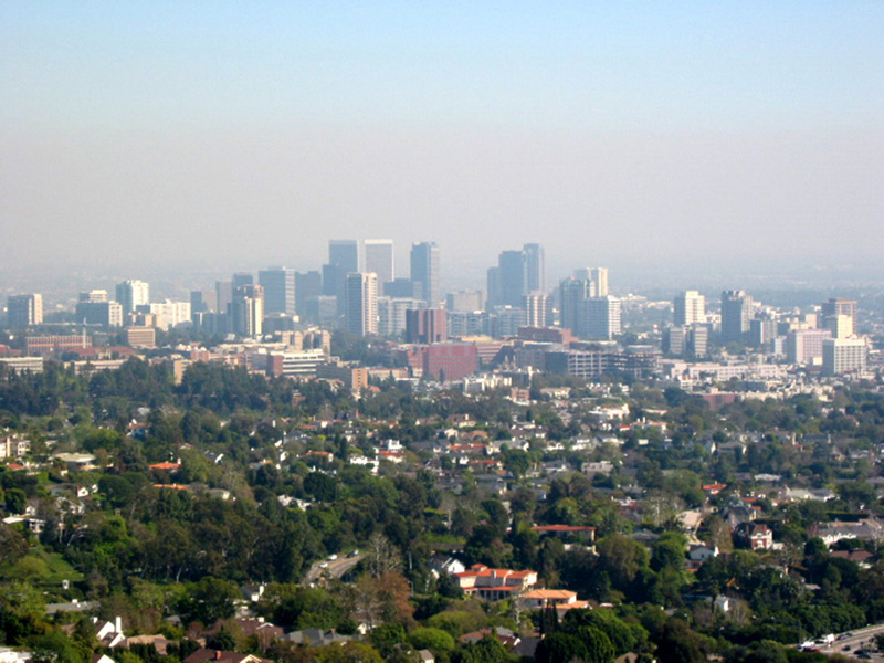 Distant view of Century city and Wilshire blv. buildings from Getty Center.